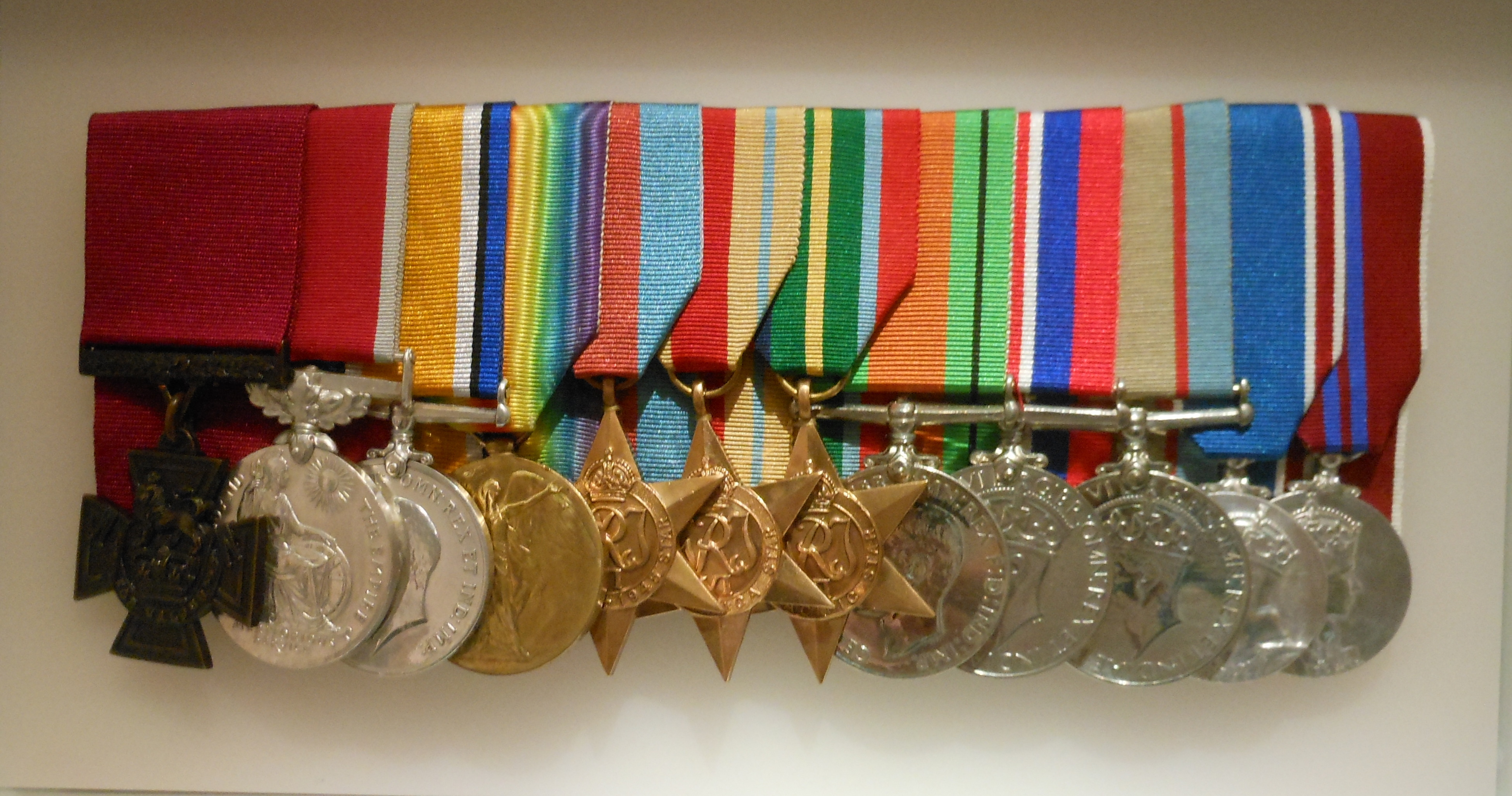 The decorations and medals awarded to Walter Peeler VC, BEM on display at the Australian War Memorial in Canberra. Peeler was an Australian recipient of the Victoria Cross, decorated for his actions in 1917 during the First World War.